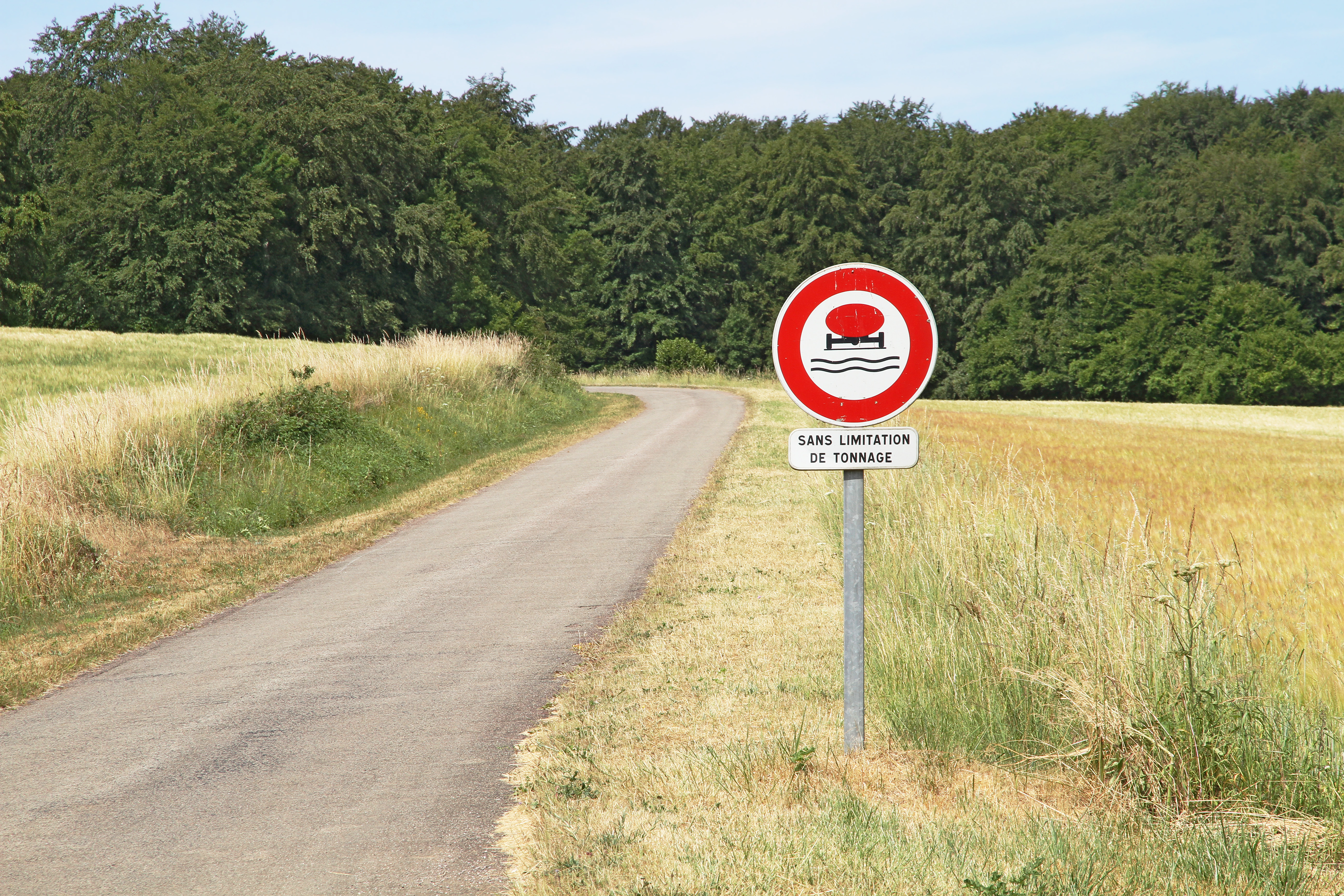 Ban sign for vehicles transporting polluting goods (french ref. B 18b) near Terrefondrée